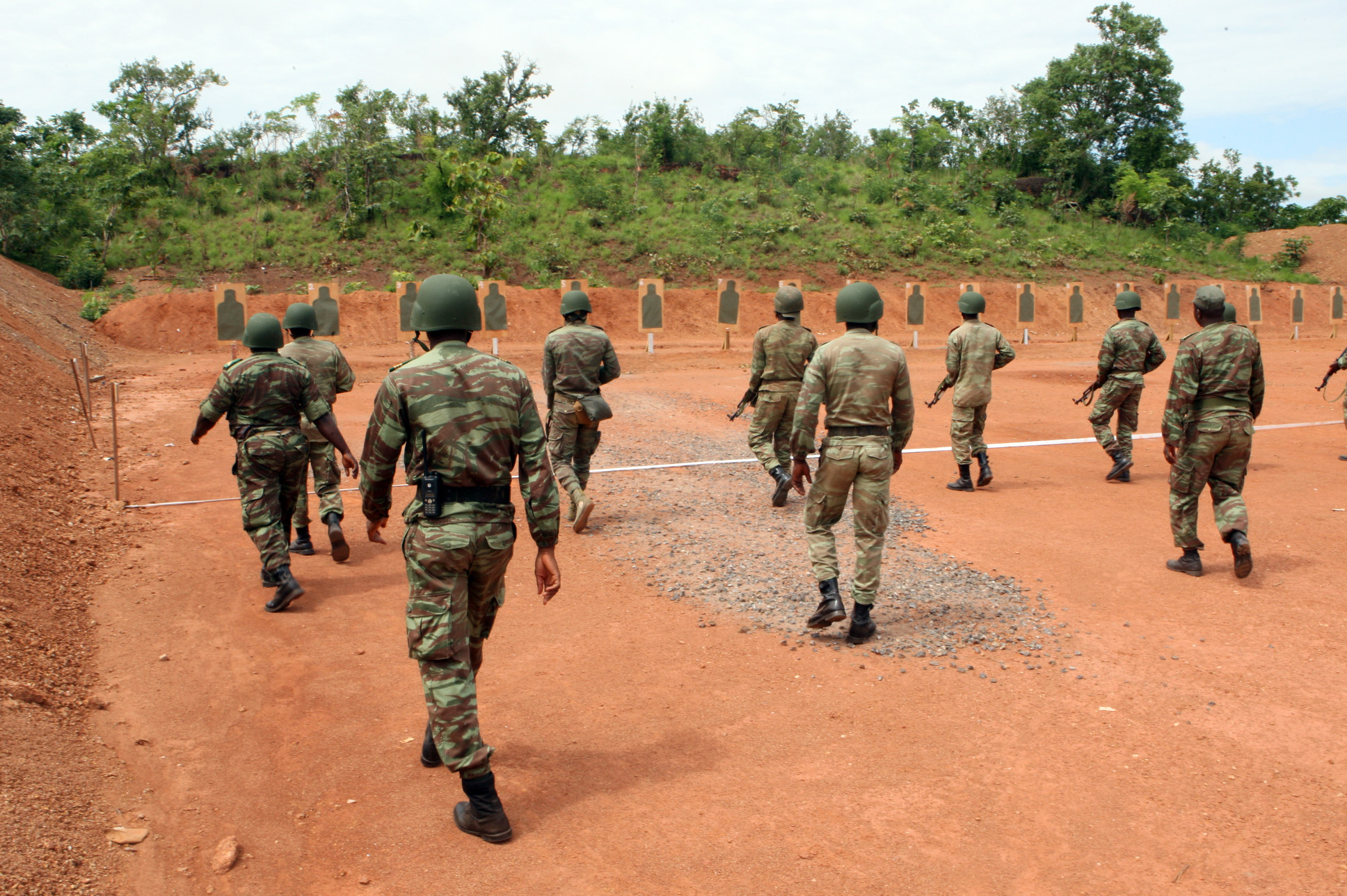 Soldiers with the 3rd Company of the Beninese Army fire their weapons at range 2 at the Center of Military Information Bembèrèkè, Benin, June 12, 2009, during Exercise Shared Accord. The exercise is a scheduled combined U.S.-Benin military exercise that includes humanitarian and civil affairs projects. VIRIN: 090612-M-8213R-027